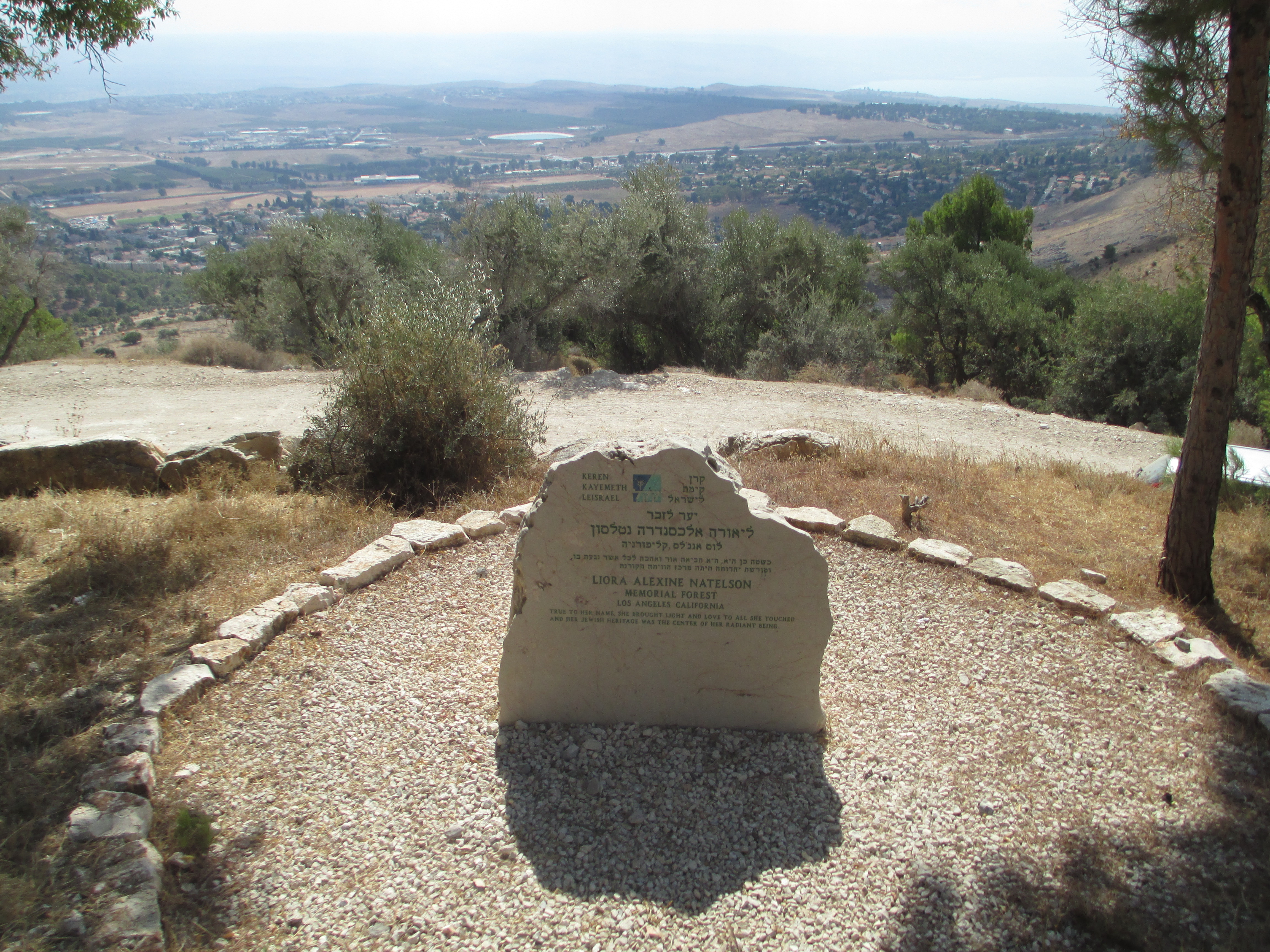 Natelson lookout in Byria Forest